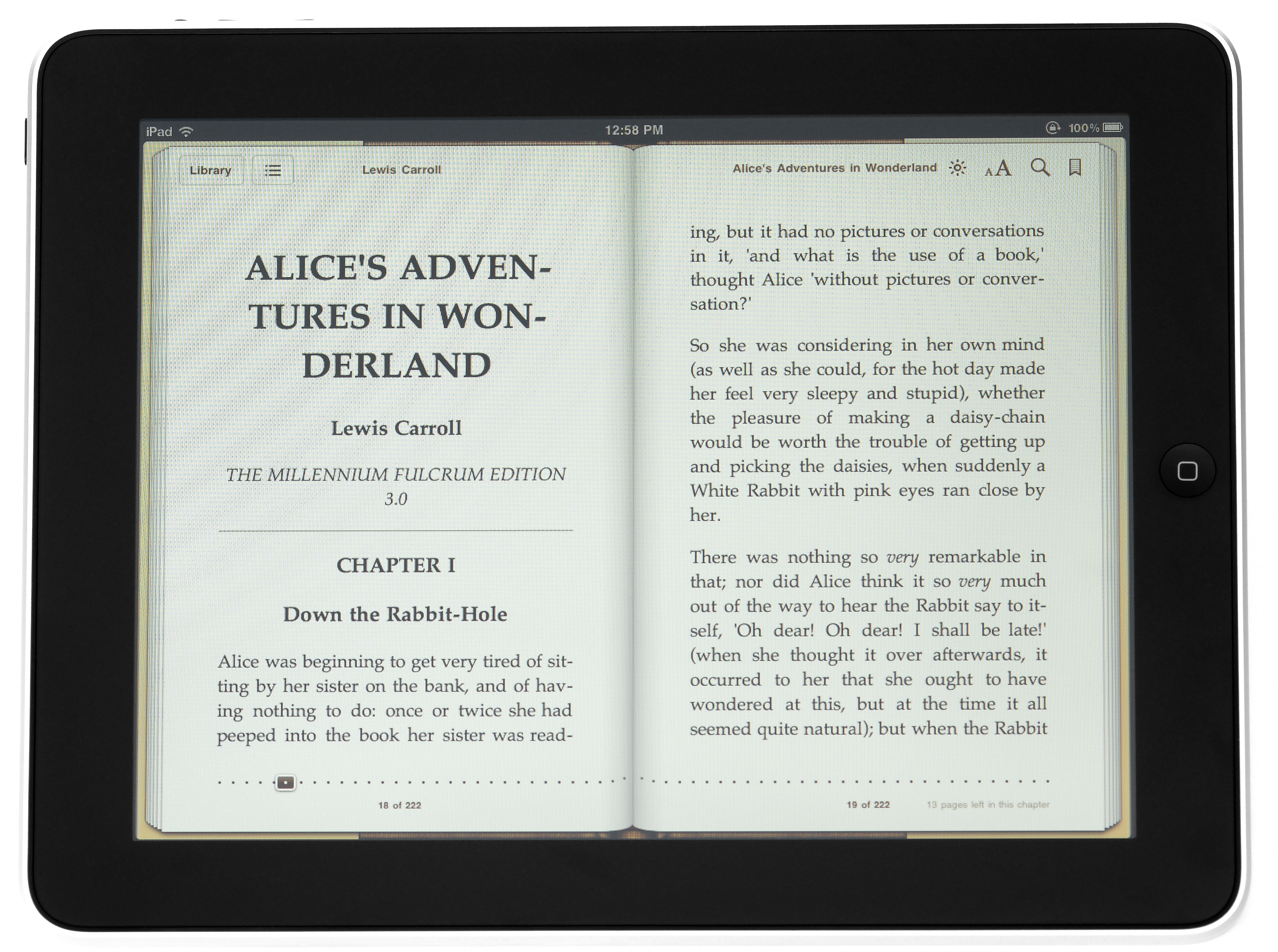 A 1st generation Apple iPad showing iBooks, with the book Alice's Adventures in Wonderland.